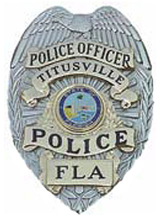 Cop badge